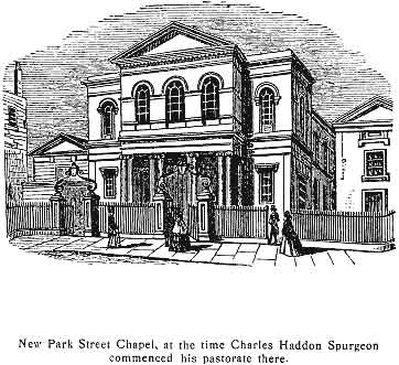 From: The Baptist encyclopaedia : a dictionary ... of the general history of the Baptist denomination in all lands; with numerous biographical sketches of distinguished American and foreign Baptists, and a supplement; Cathcart, William; 1881; Philadelphia : Everts